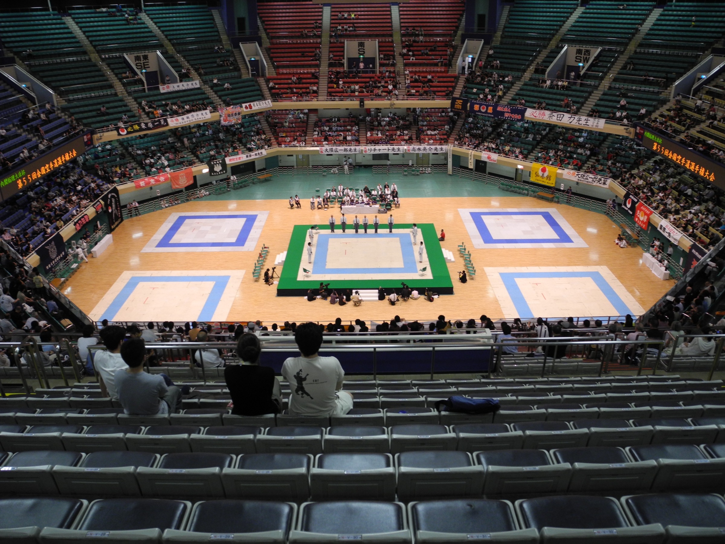 2012 JKA Adult All-Japan Tournament. Day 1 in the Nippon Budokan.